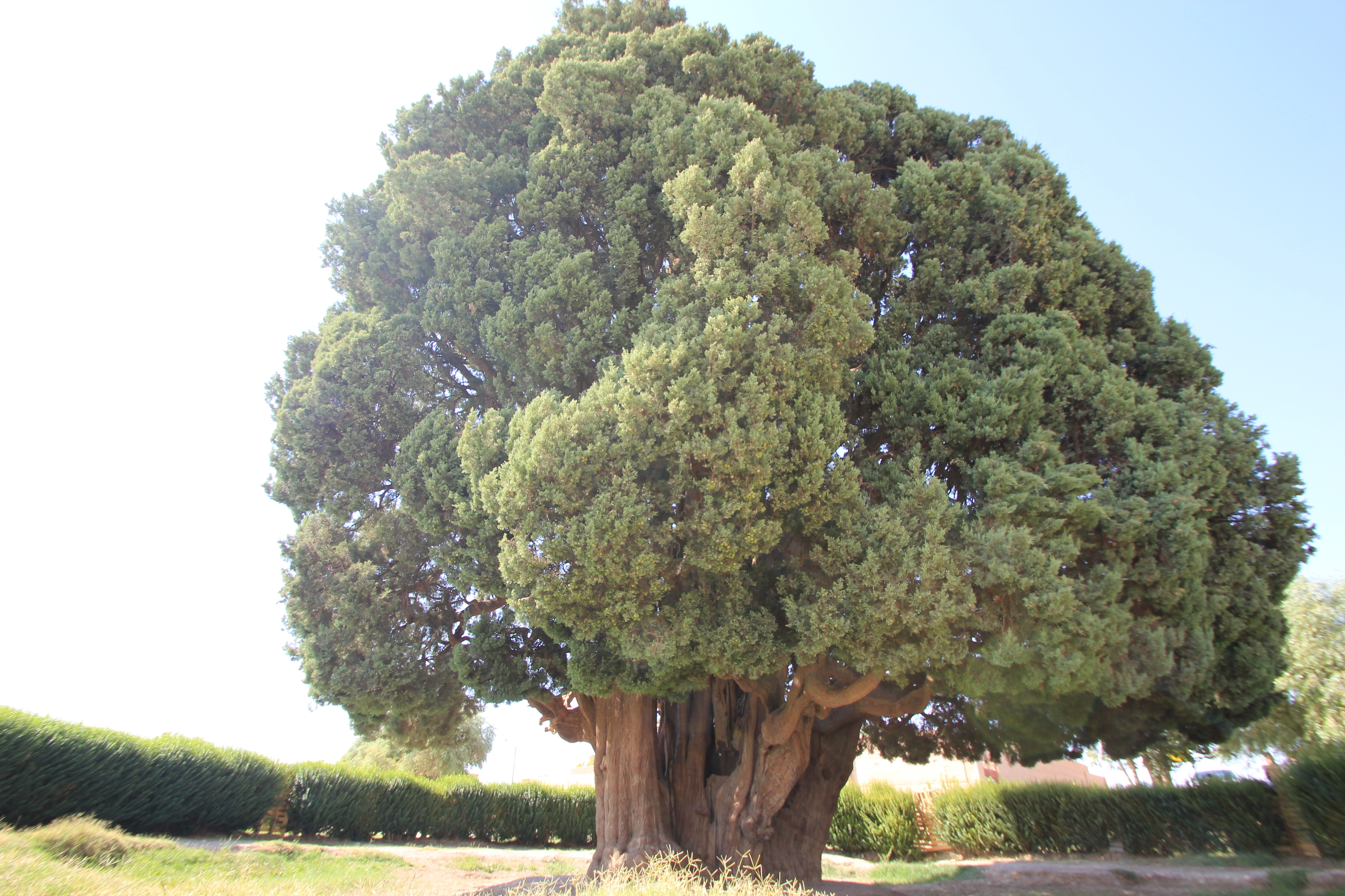 The cypress tree plays a significant role in Persian culture and it has been used in the design of famous Persian Gardens. According to historic narratives, during his lifetime the prophet Zoroaster planted two cypress trees as good omens